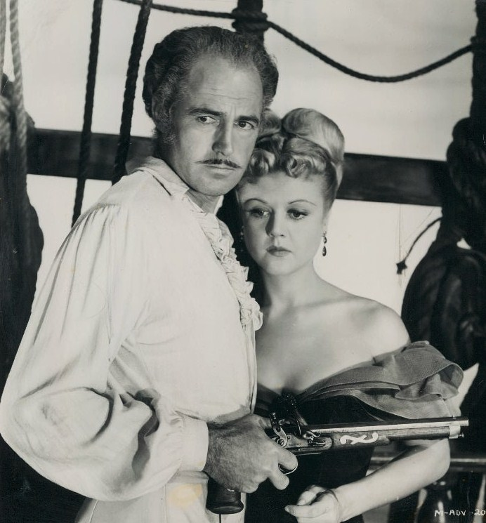 Patric Knowles & Angela Lansbury in Mutiny - publicity still (cropped : see source)